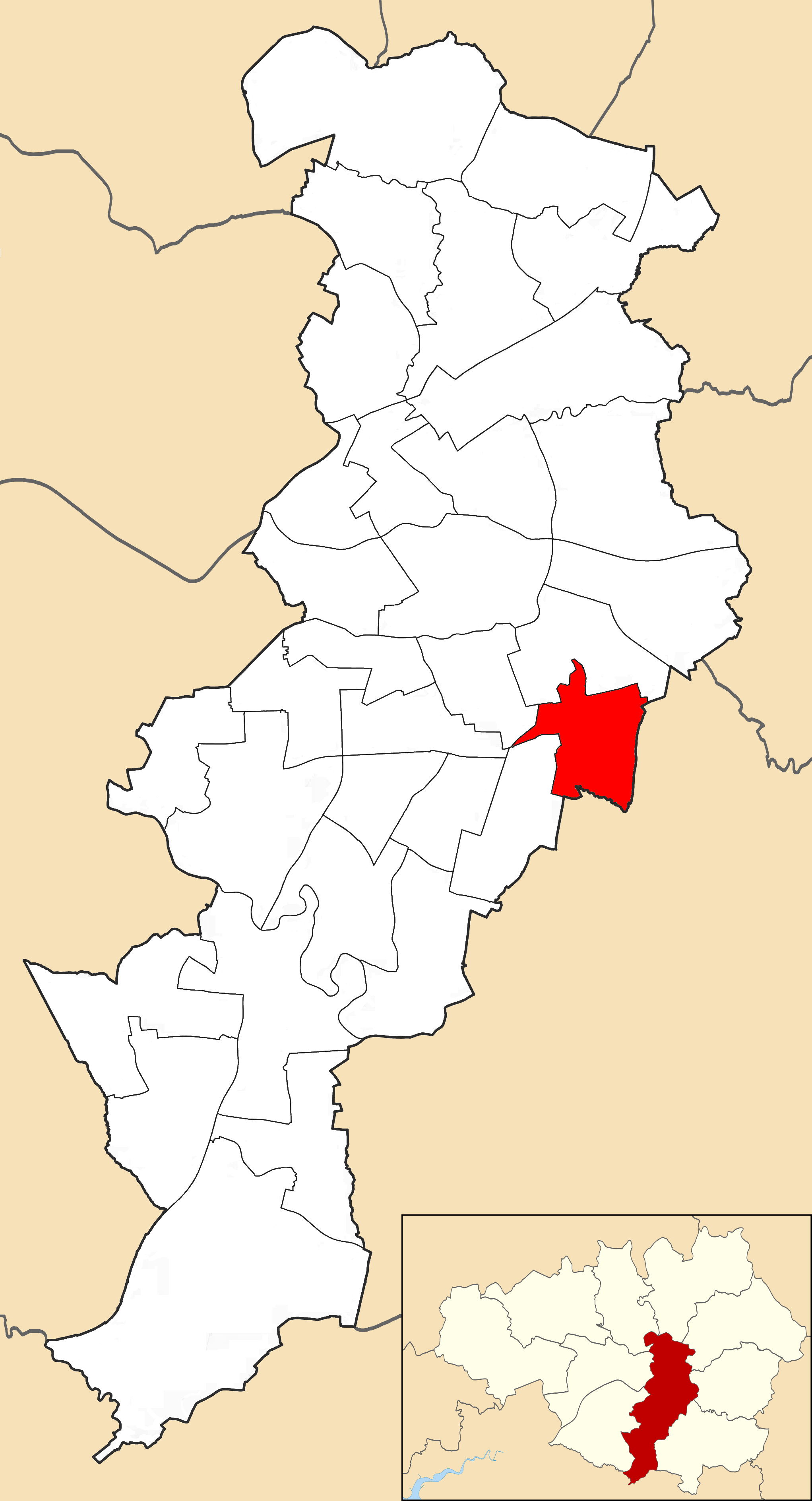 Map showing location of Levenshulme ward within Manchester City Council.